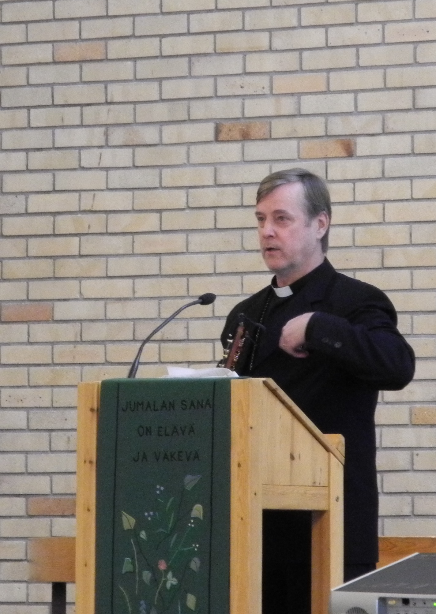 Arvo Survo, a priest of Finland